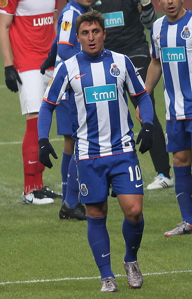 Cristian Rodríguez